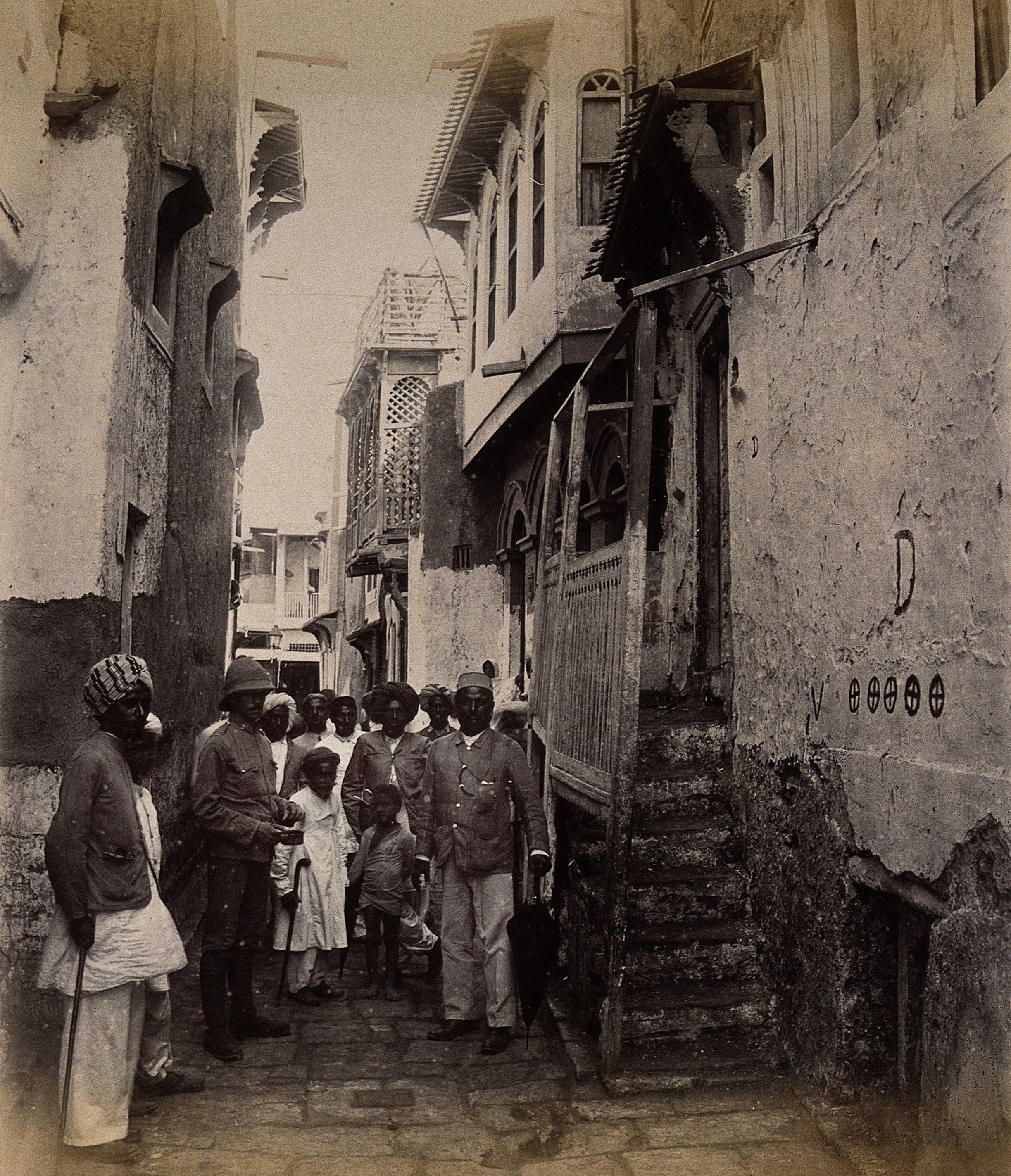 Khooshalrai Lane. Site of 4th house infected with Plague and 1st in the heart of the town, Karachi, India. Photograph probably by Jalbhoy, R. The lettering is printed on the mount Symbols have been painted on the wall of the house Karachi is a port in the province of Sind (now [1996] Pakistan). It was placed in quarantine in 1882, during the outbreak of bubonic plague which spread from Bombay. The Plague Committee consisted mostly of volunteers, who were organised into parties and were responsible for the segregation and inoculation of various districts Contained in an album of photographs which show the work of the Karachi Plague Committee in 1897 Iconographic Collections Keywords: Karachi Plague Committee (India)